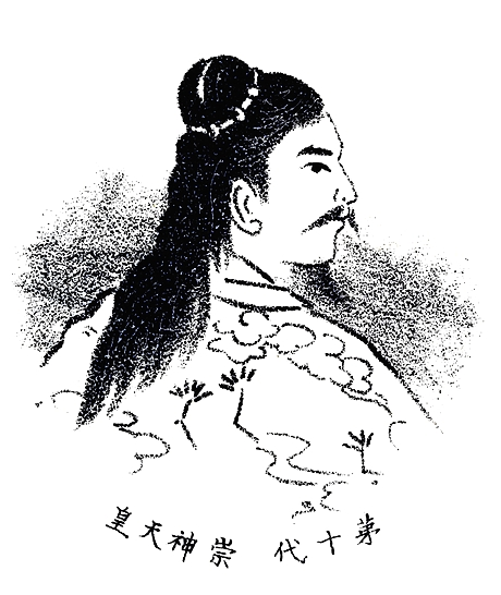 Emperor Sujin(崇神天皇, Sujin Tennō), who was the 10th emperor of Japan